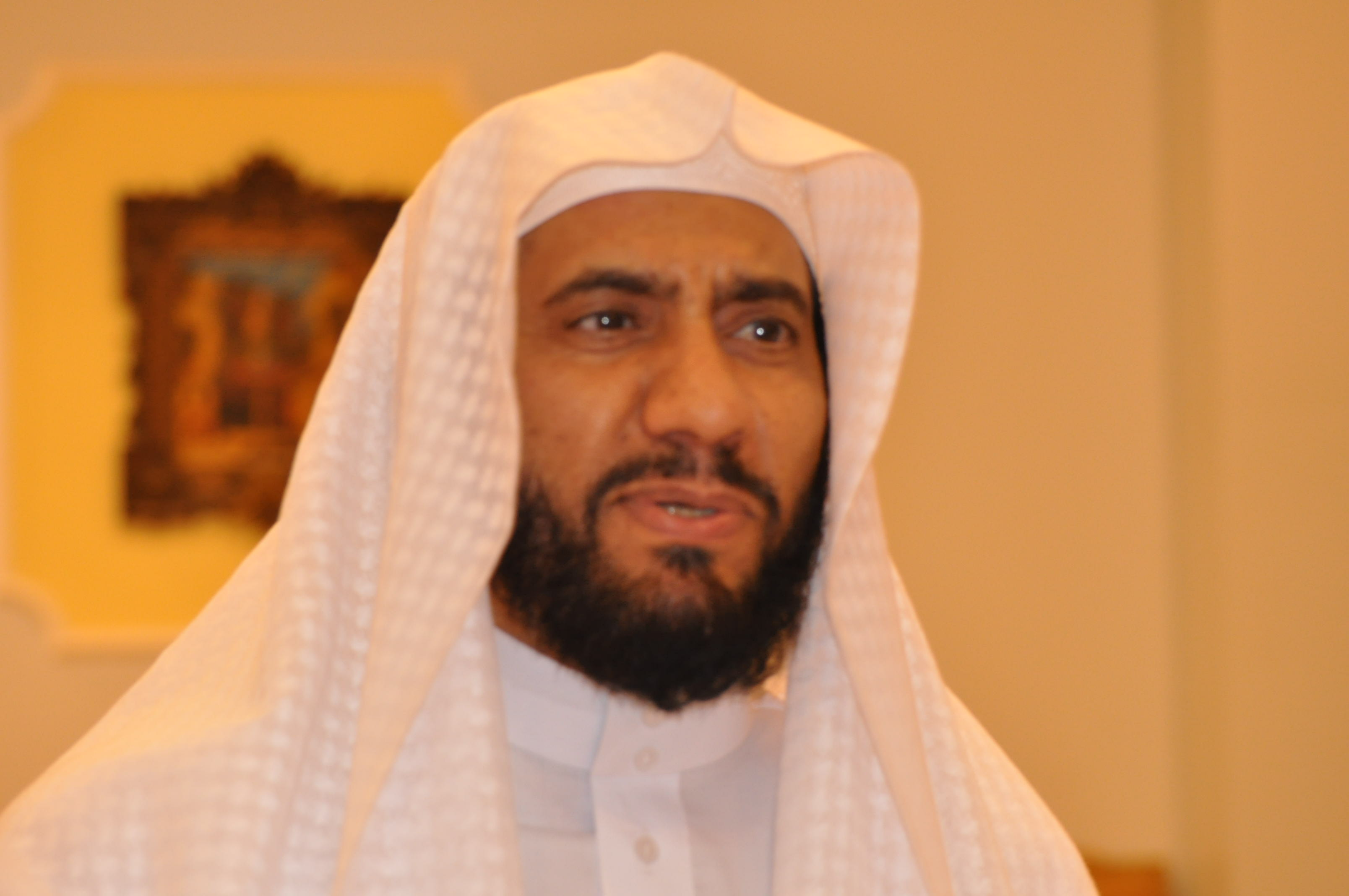 Mohsen Al-Awajy.